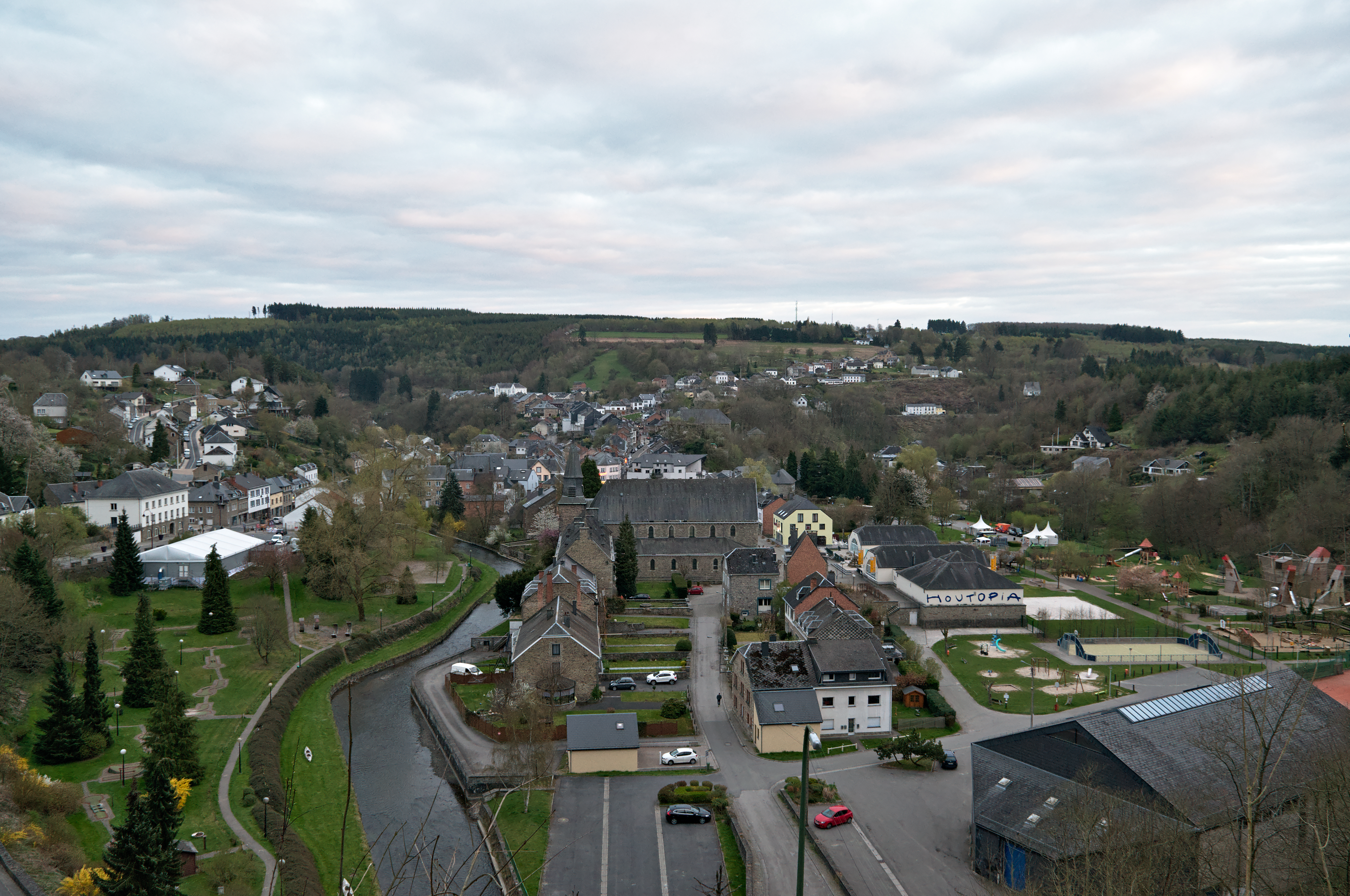 Entering Houffalize from "Colas" (GR57), Belgium This photo of immovable heritage has been taken in the Walloon Region